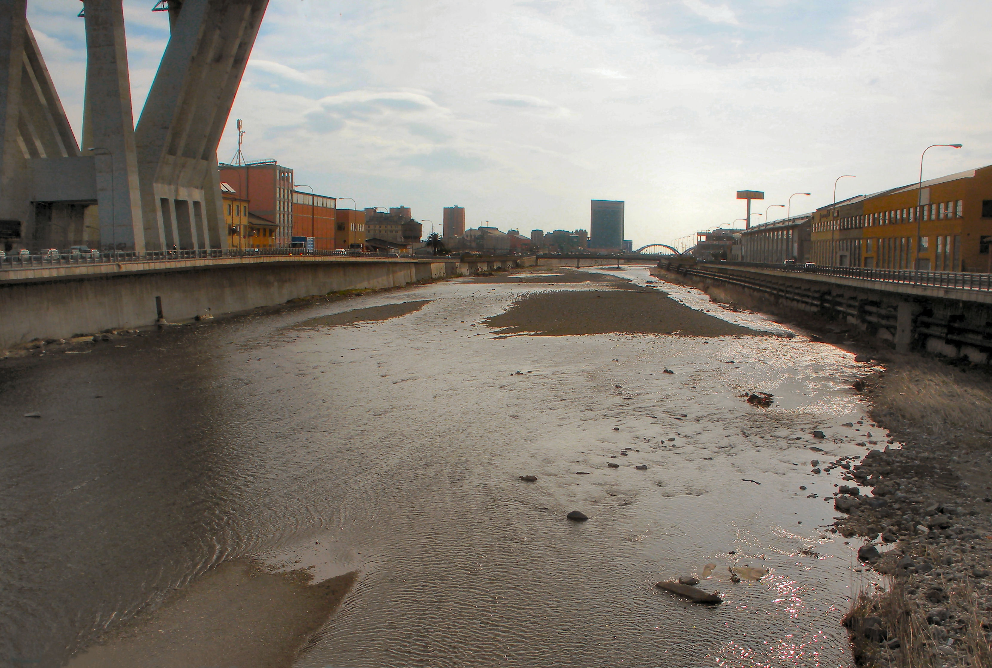 Genoa (Italy), torrent Polcevera at Campi